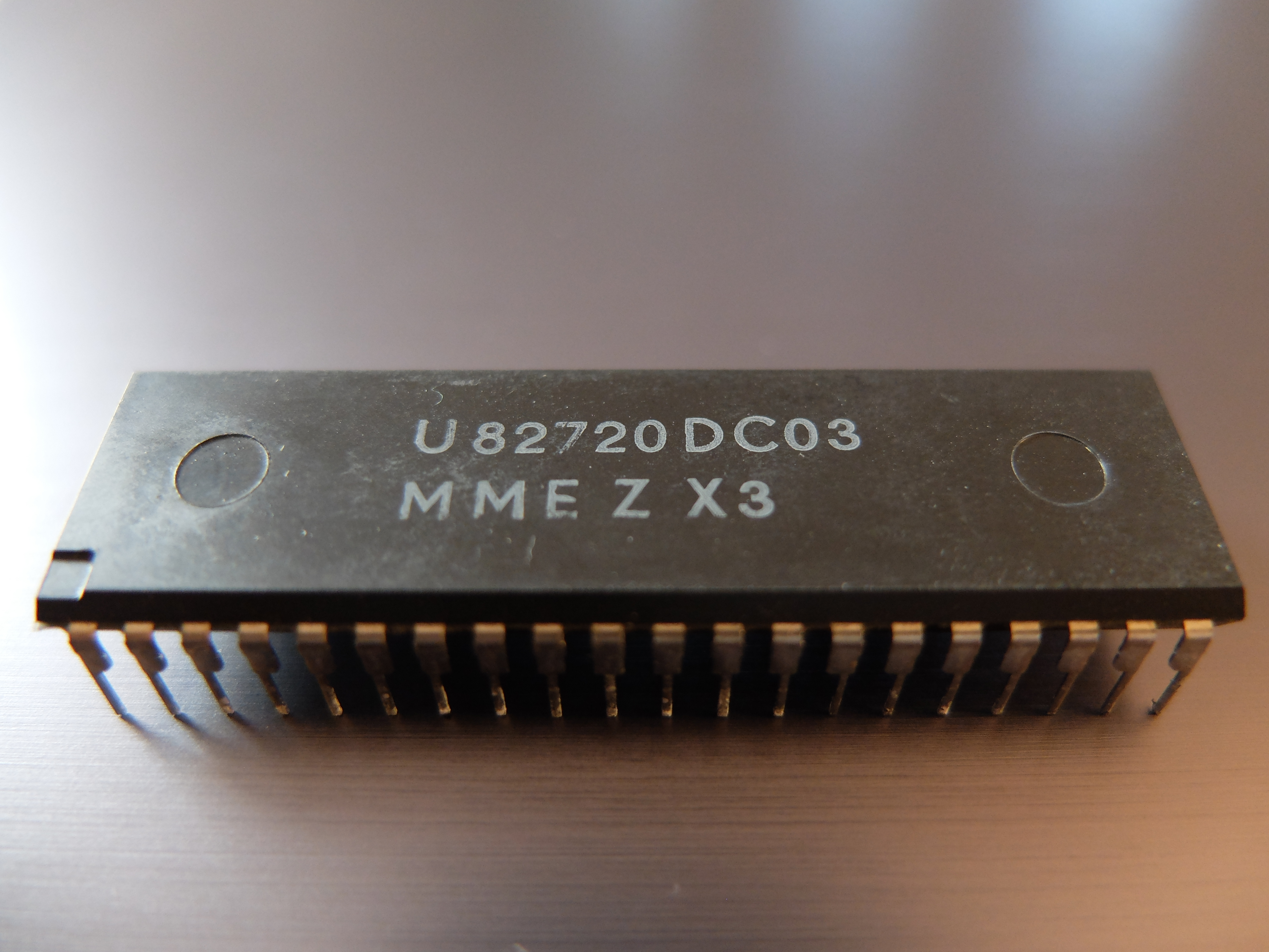 GDC U82720DC03